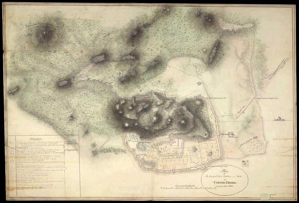 Plan of the Chitradurg Fort